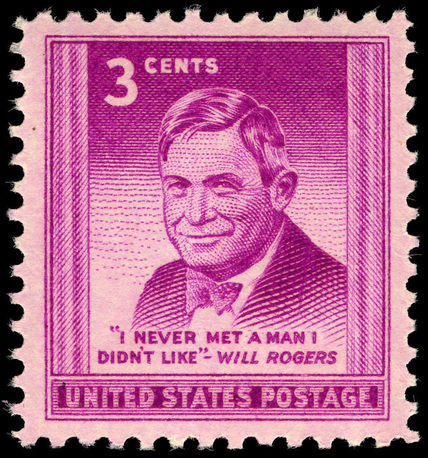 Will Rogers 3-cent 1948 issue U.S. stamp.